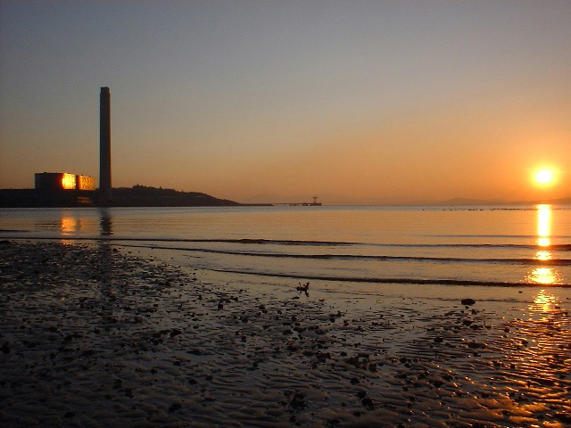 Taken without filters, this picture shows the sun setting over the River Clyde and Toward, Argyll. The mothballed Inverkip Power Station is on the left.